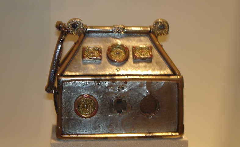 Uploader's own photograph.